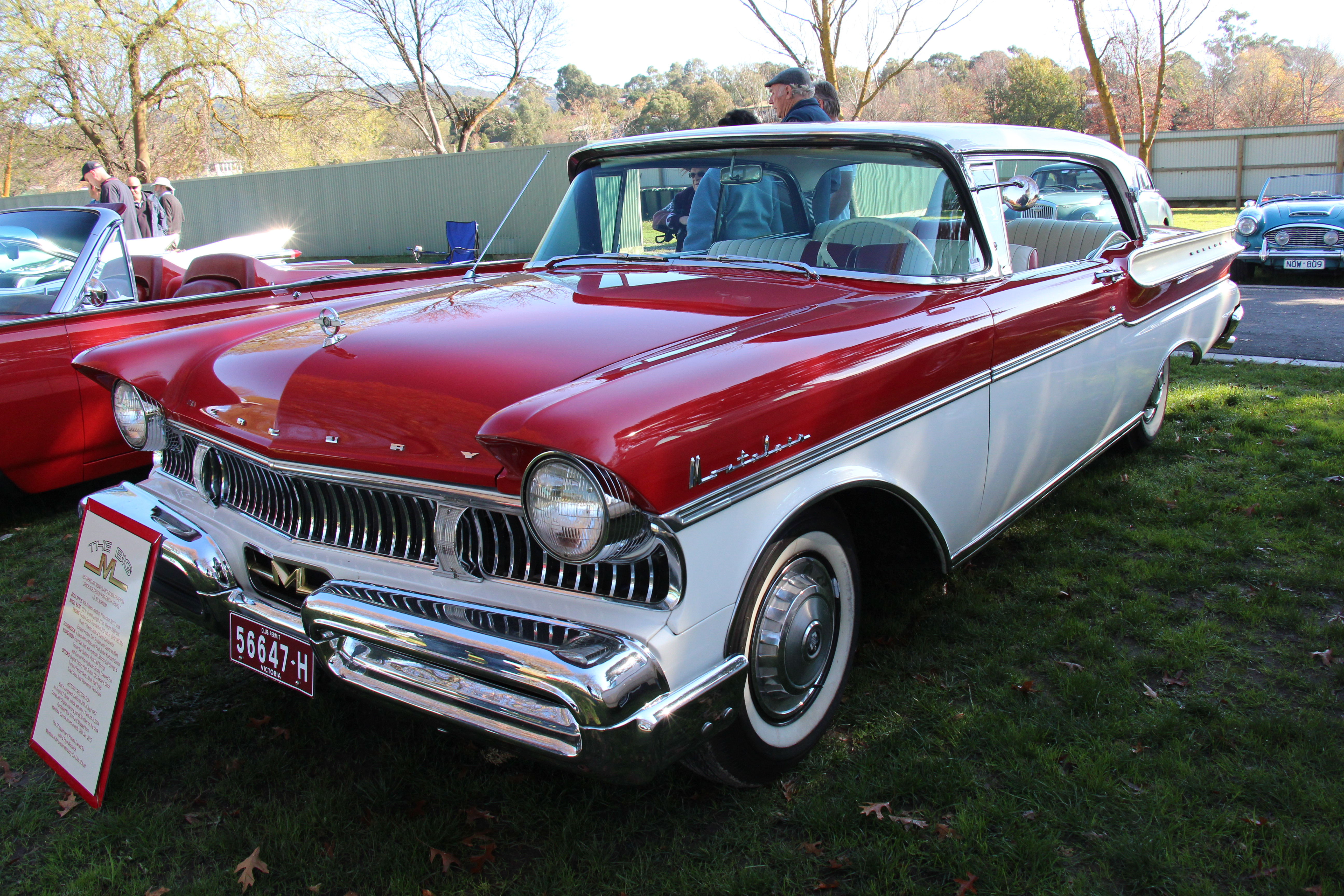 The Montclair was available from 1955-60, not available for 3 years, then from 1964-68. The Monterey was the base model and the Montclair, the top until the Park Lane introduced in 1958, then the Montclair became mid spec. It got extra chrome and two tone paint . In 1955 and 1956, the plexiglas roof Sun Valley was also available. Available in 2 door Coupe or Convertible or 4 door Sedan. Engine; 285hp 312 cu in Y block V8